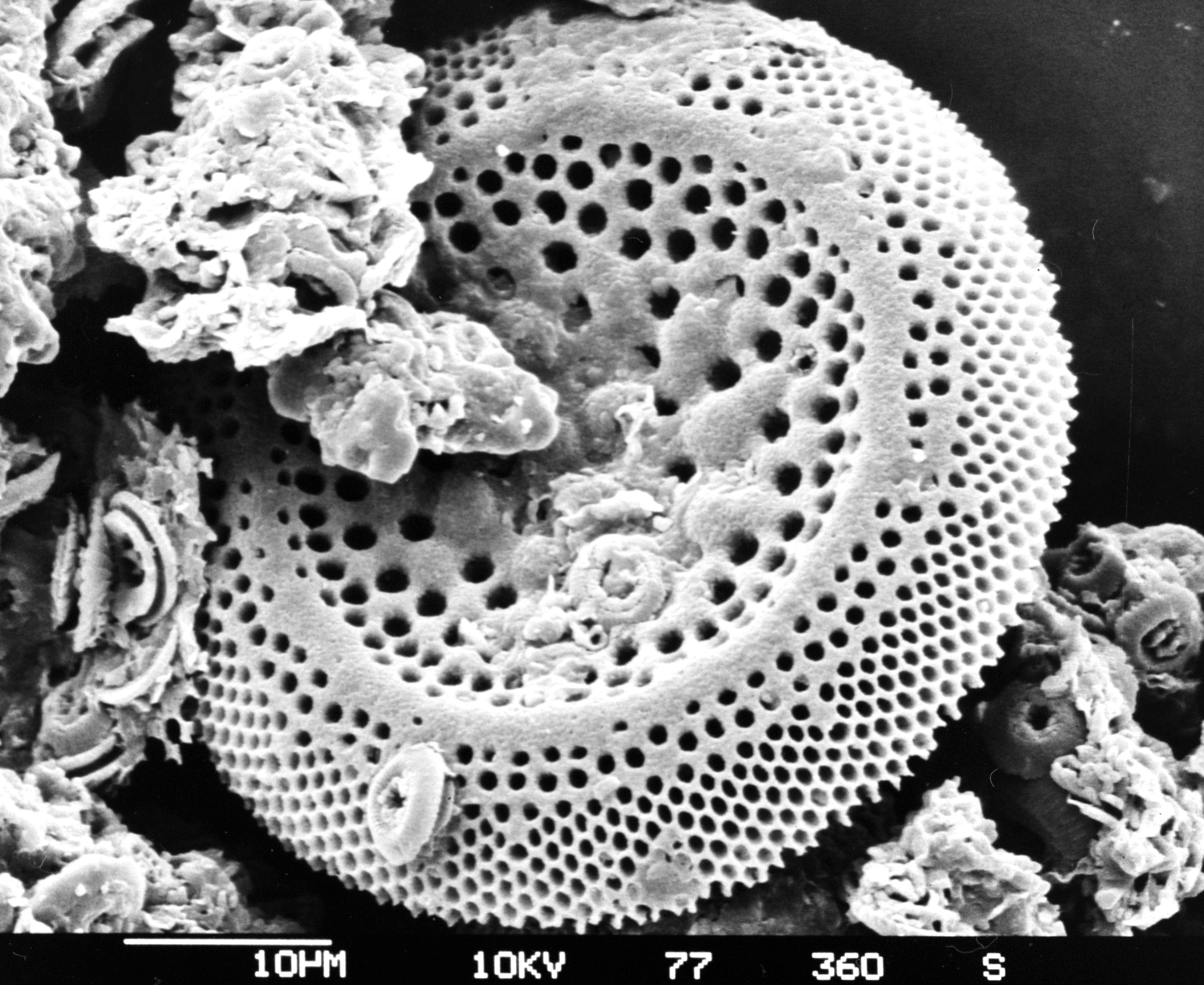 Microfossils from marine sediments - Diatom